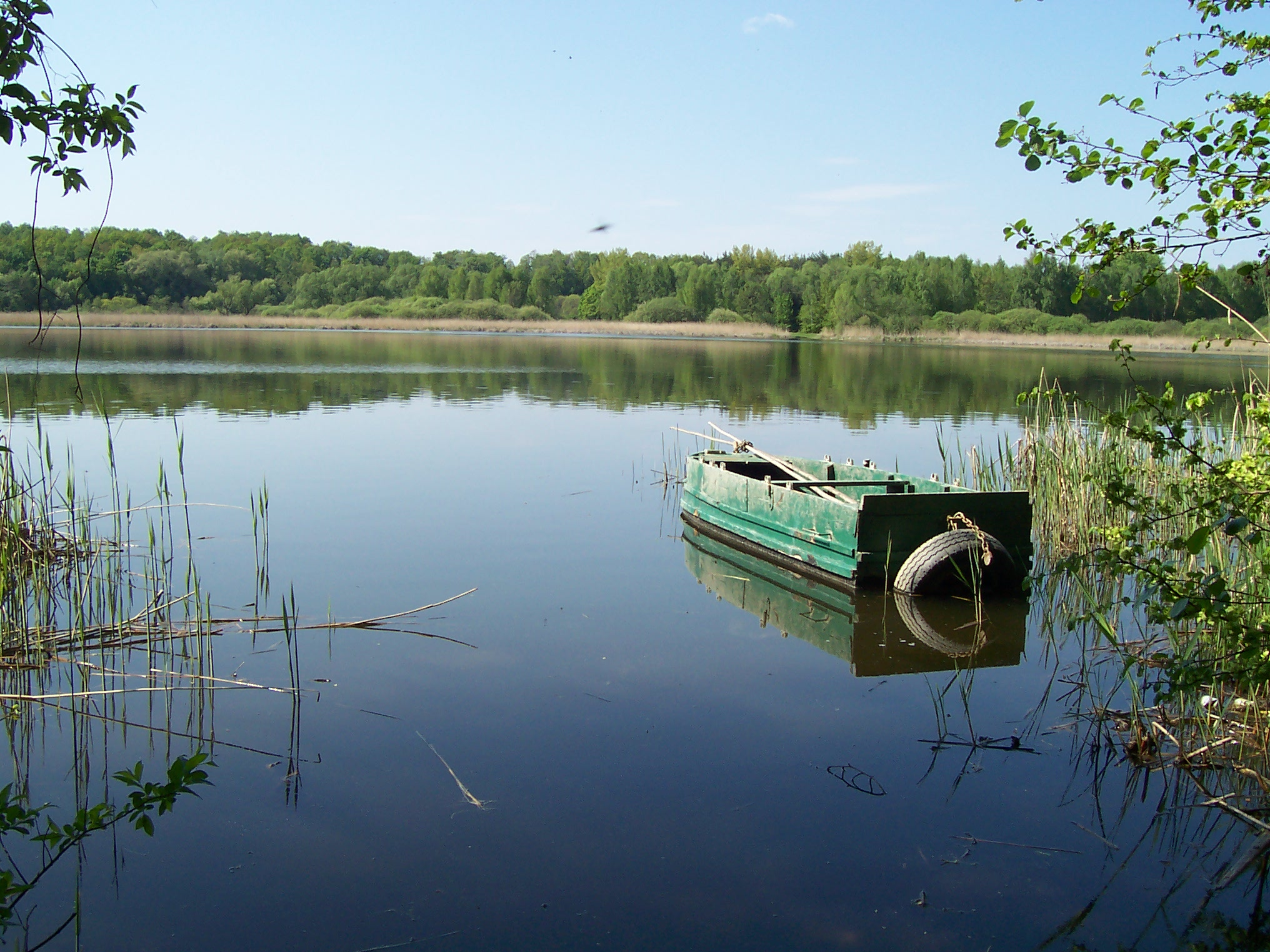 Swarzedzkie Lake